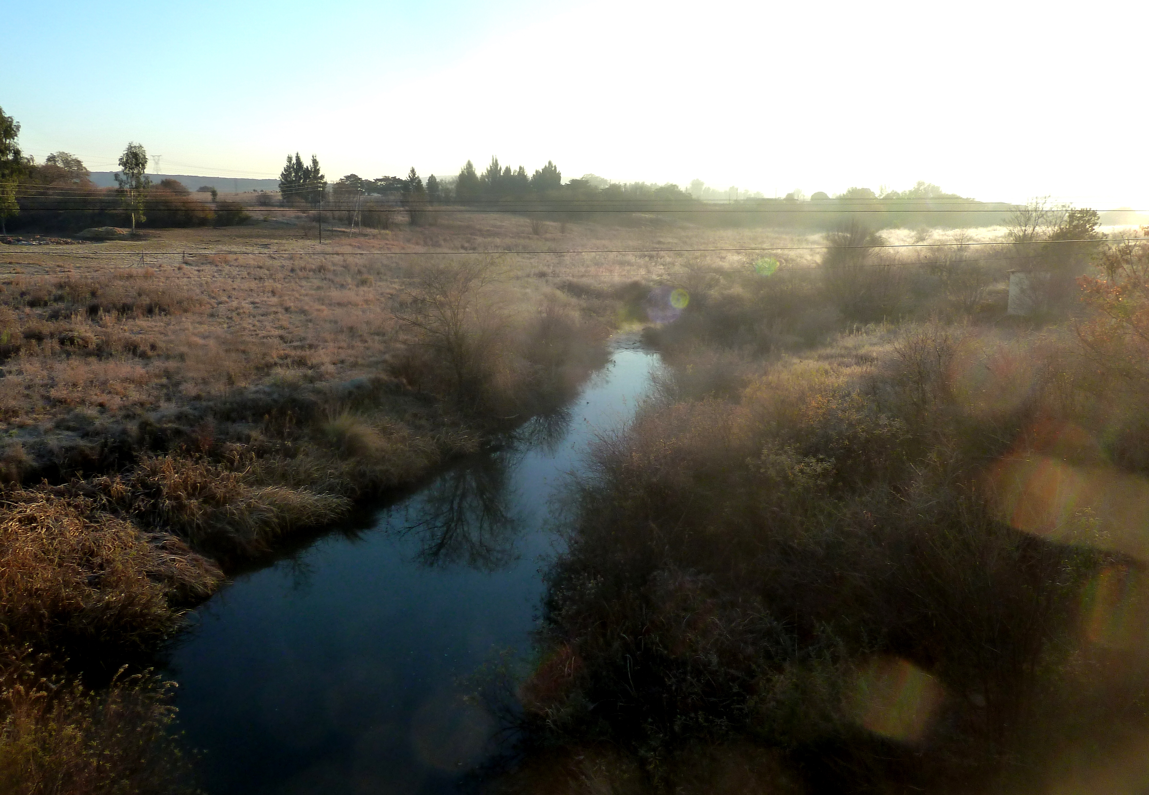 Looking downstream, at sunrise, along the upper Wilge River east of Bronkhorstspruit, Gauteng